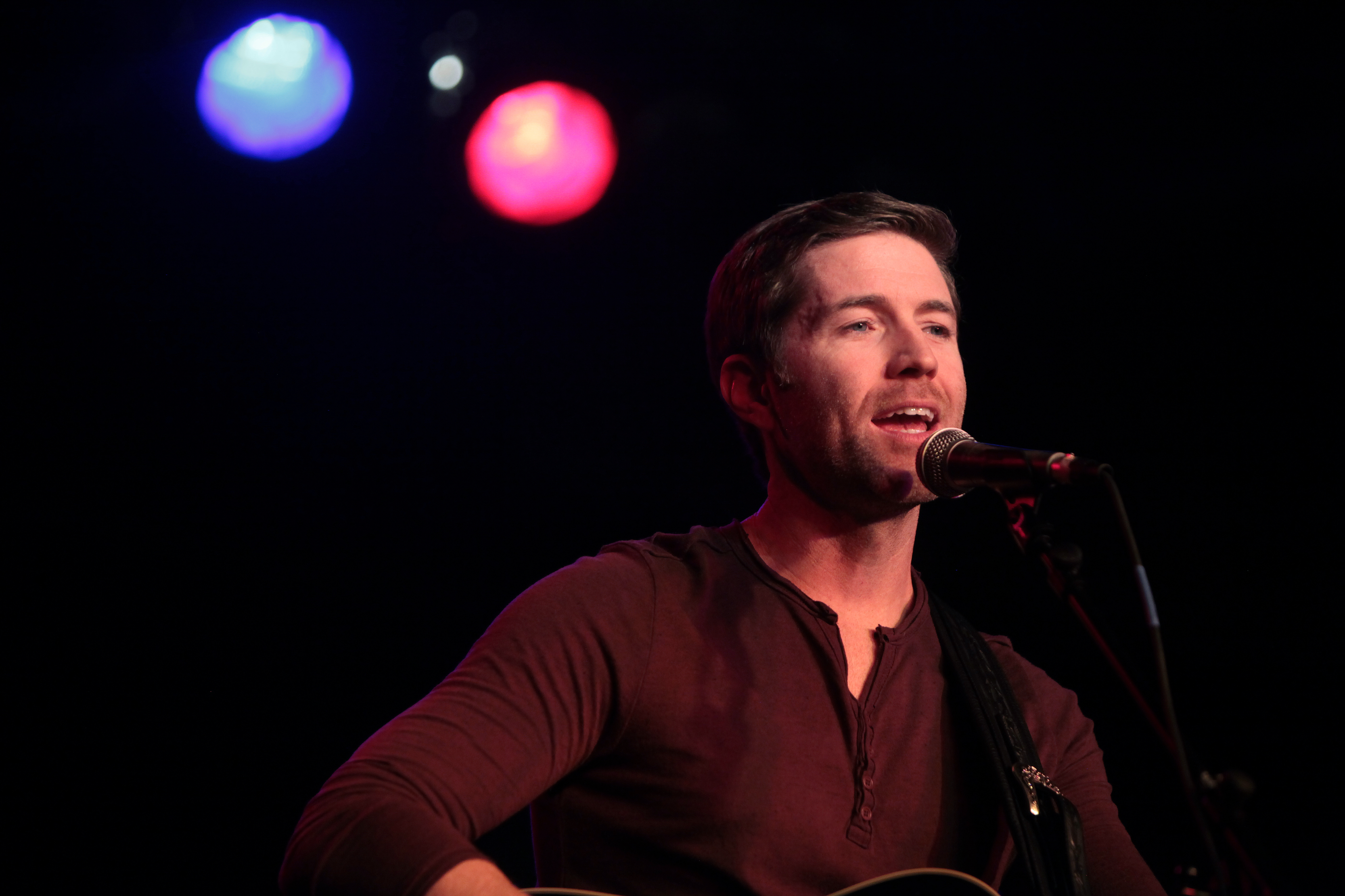 Josh Turner performing at an event in Des Moines, Iowa.